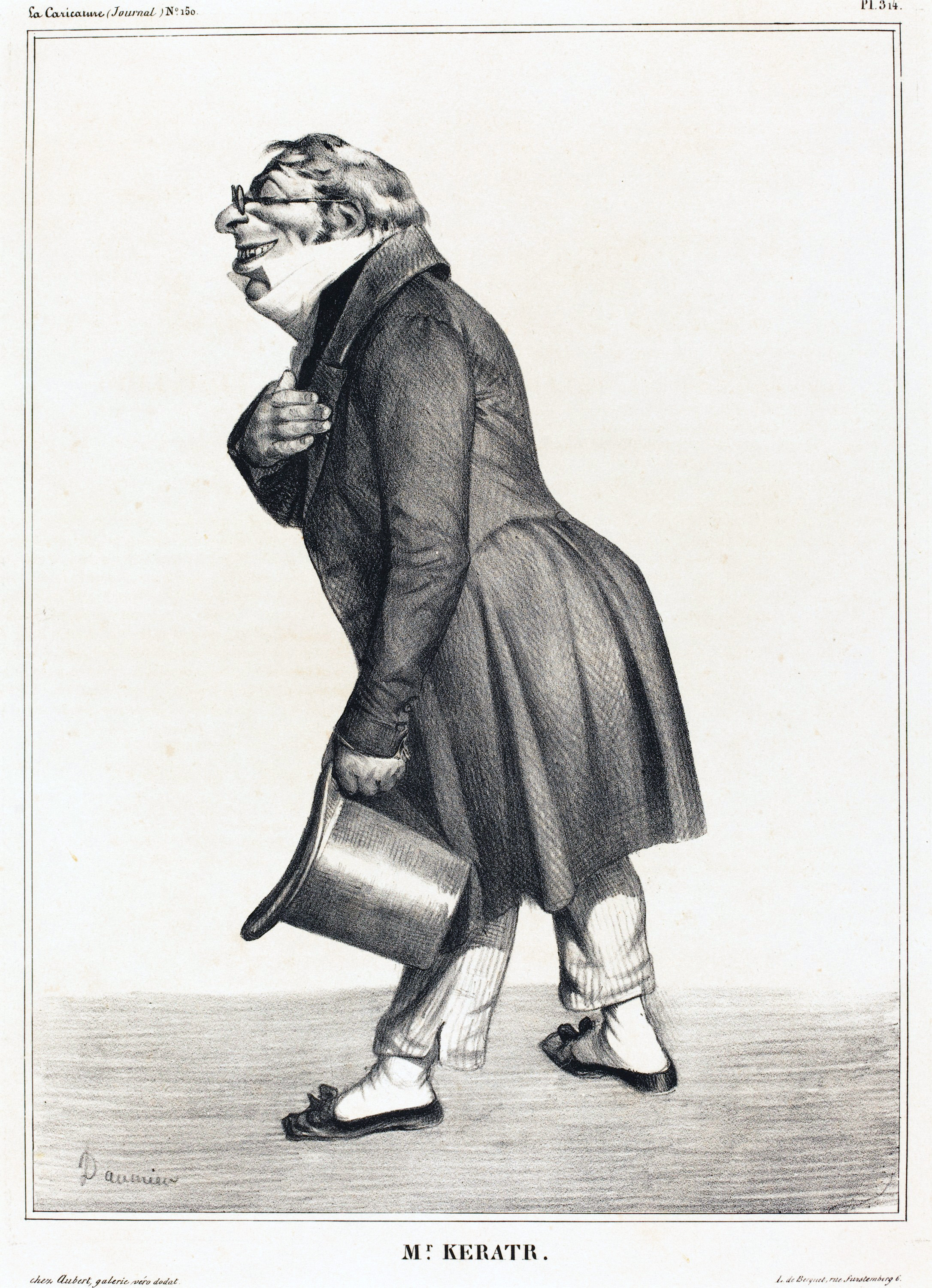 Caricature of Auguste de Kératry published in La Caricature. National Gallery of Art, Rosenwald Collection, 1943.3.2931